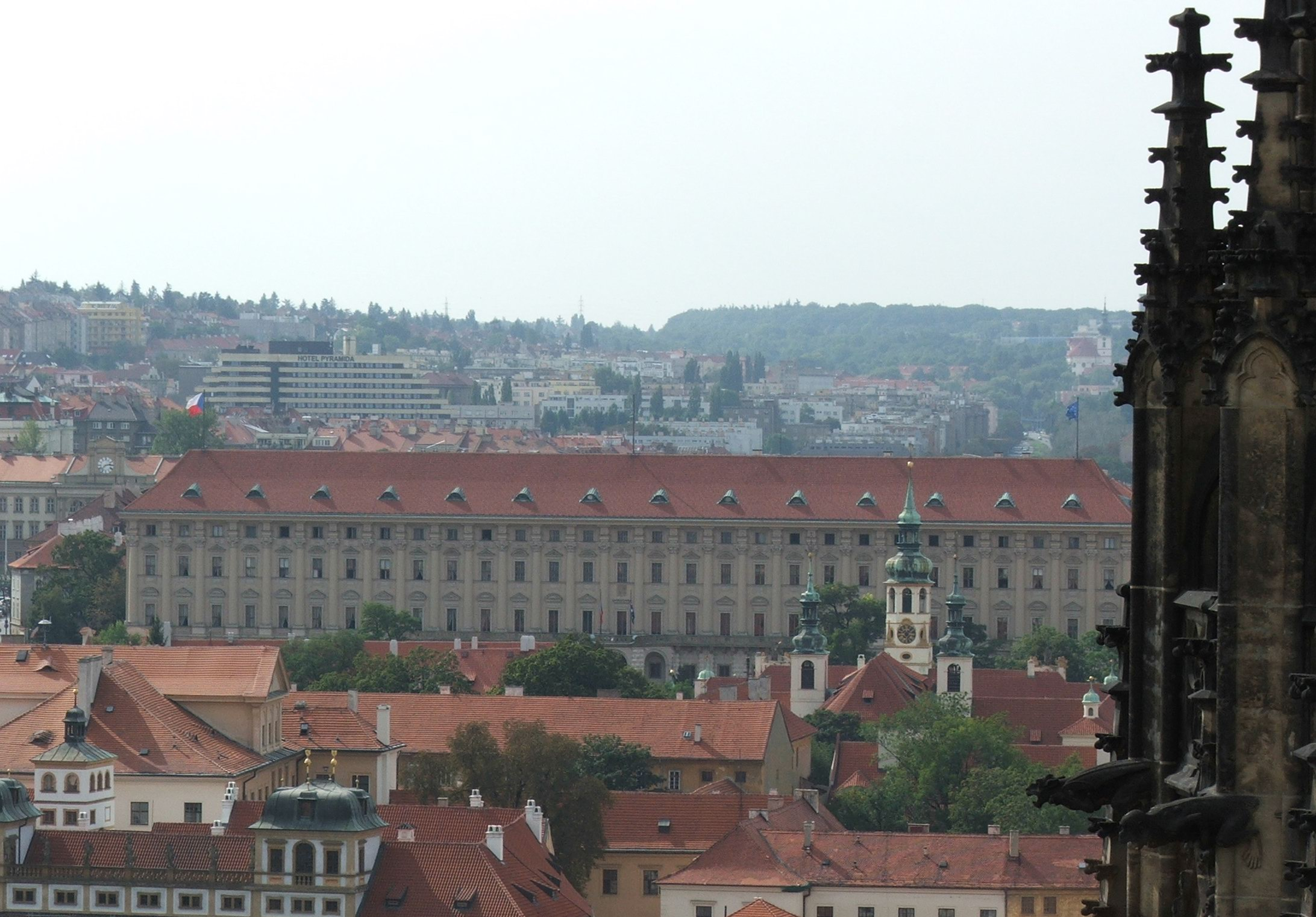 Černín Palace - HQ of Czech Ministry of foreign affairs and Loreta church towers in foreground, seen from Prague castle St. Vitus cathedral - Prague, Czechia.